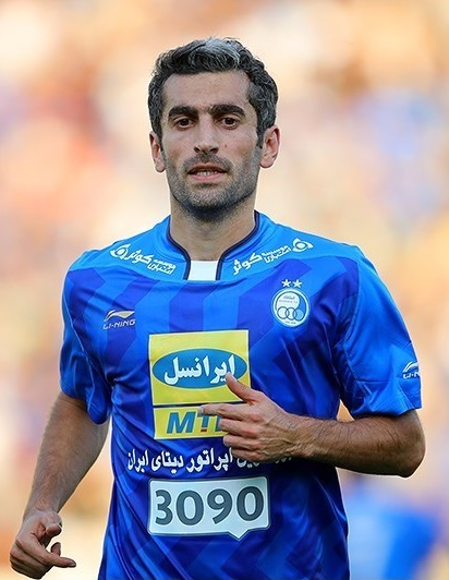 Mojtaba Jabbari